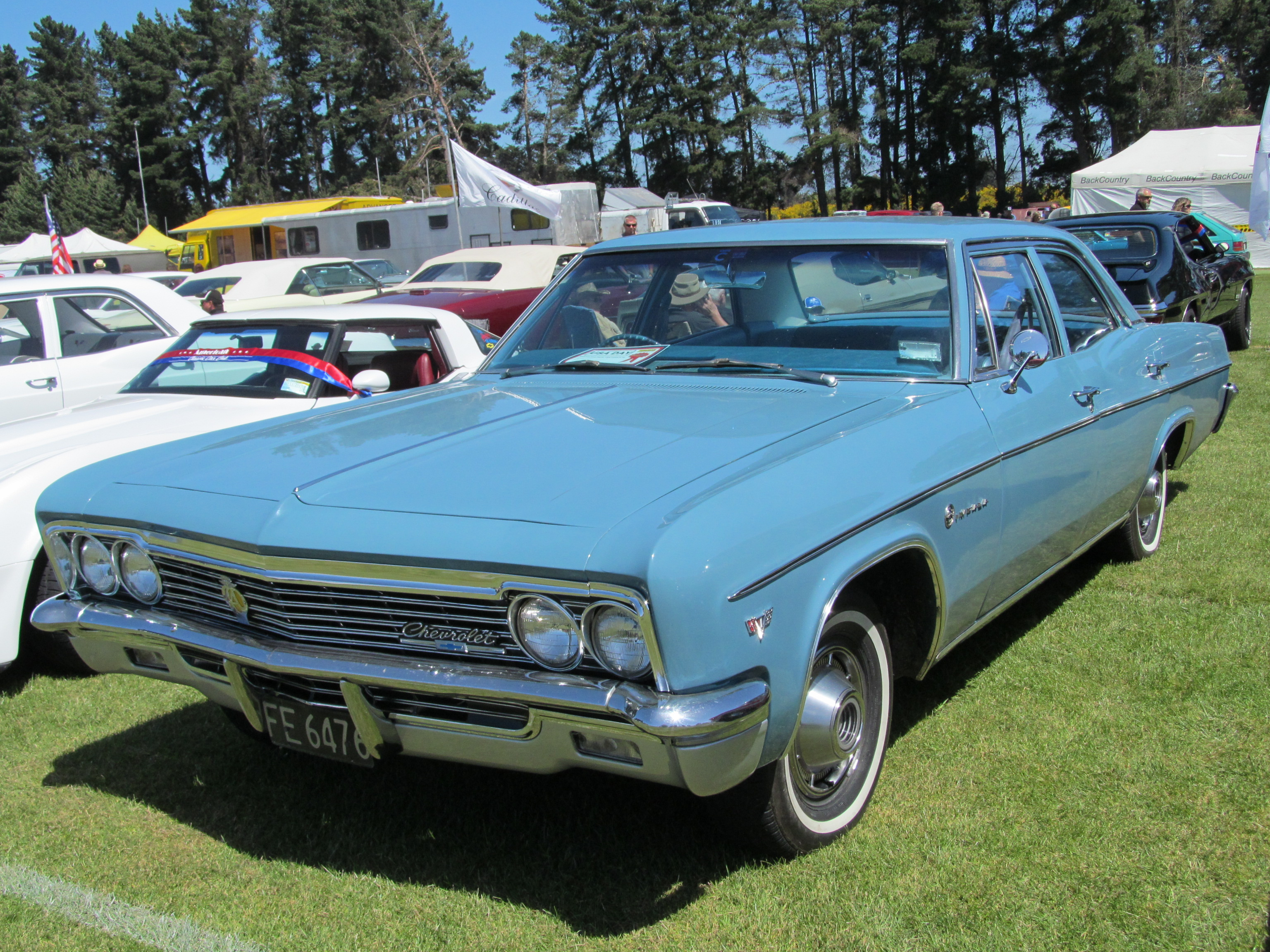 This was stunning - an absolute beast of a car, and a totally original, NZ sold Impala that essentially looks as it did when it was driven off a GM dealership somewhere in New Zealand 47 years ago. When you consider how many classic American cars have been imported into NZ and modified distastefully, a car like this is a breath of fresh air.